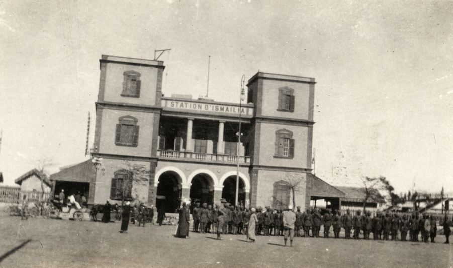 WWI Photograph Album- Egypt, Gallipoli and Western Front Description Ismailia Train Station, Egypt 1915. Indian troops are lined up in front of it Period WWI Country Egypt Location Ismailia Unit 1st Field Ambulance Subject Indian Forces From album WWI Photograph Album- Egypt, Gallipoli and Western Front Accession Description Photograph Album of 3/912 Sergeant William David McWilliams, 1st Field Ambulance and 2nd Field Ambulance, New Zealand Medical Corps. The album is stunningly laid out as a scrap book that includes photographs, illustrations and newspaper clippings. The photographs cover the troopship journey, time in Egypt, Lemnos, Gallipoli, the Western Front, Britain and back in New Zealand post WWI, for the unveiling of the New Zealand Medical Corps Memorial in 1929. Accession No. 1992.760